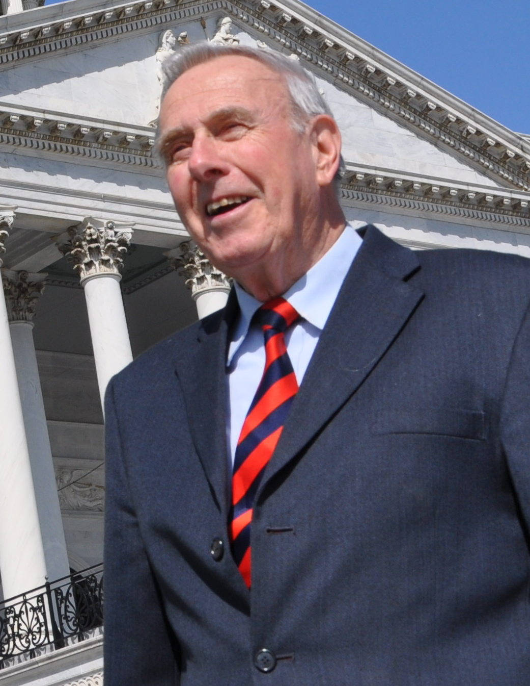 2010 visit to U.S. Capitol, Washington, D.C.